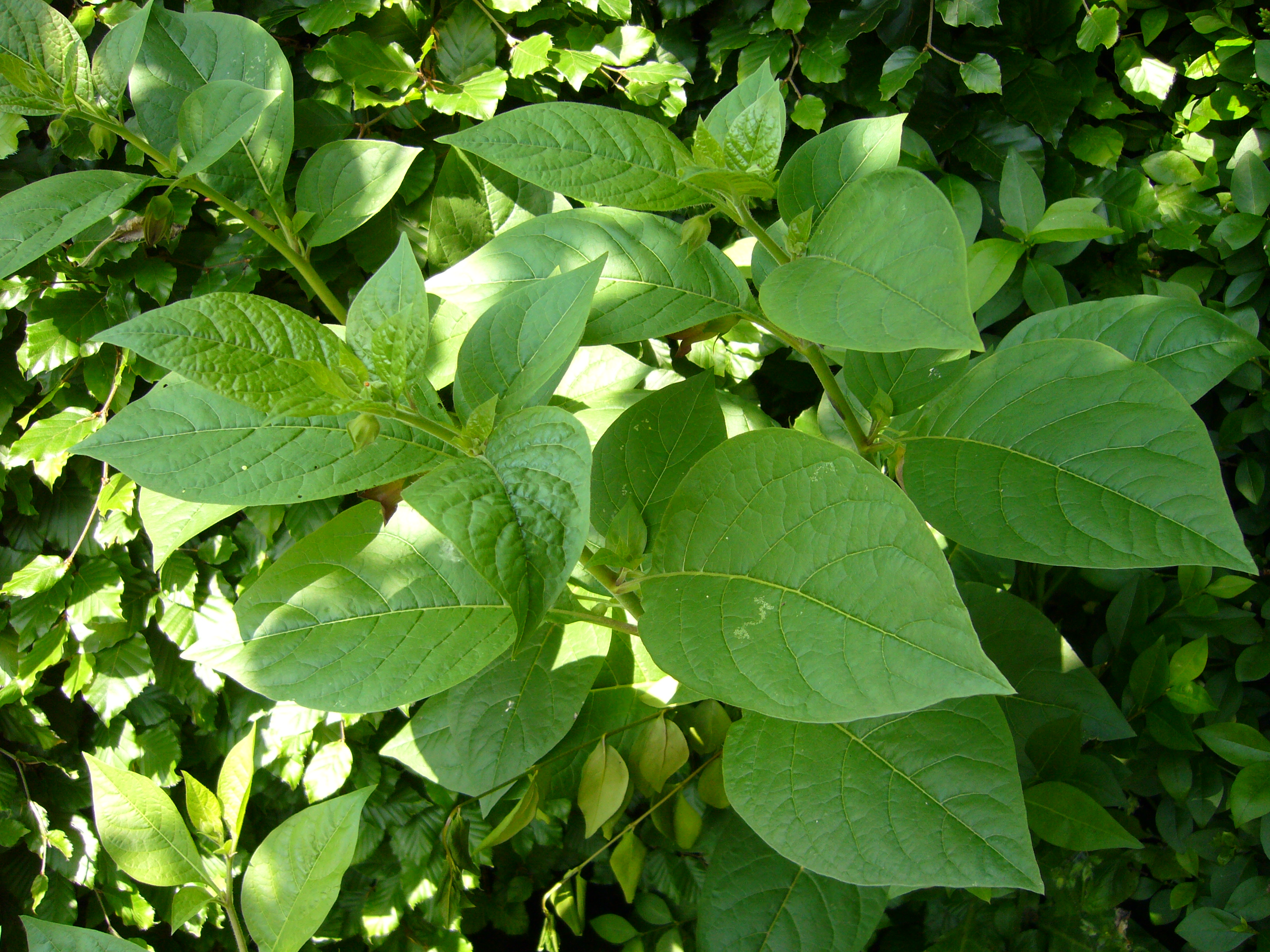 The leaves of Atropa belladonna